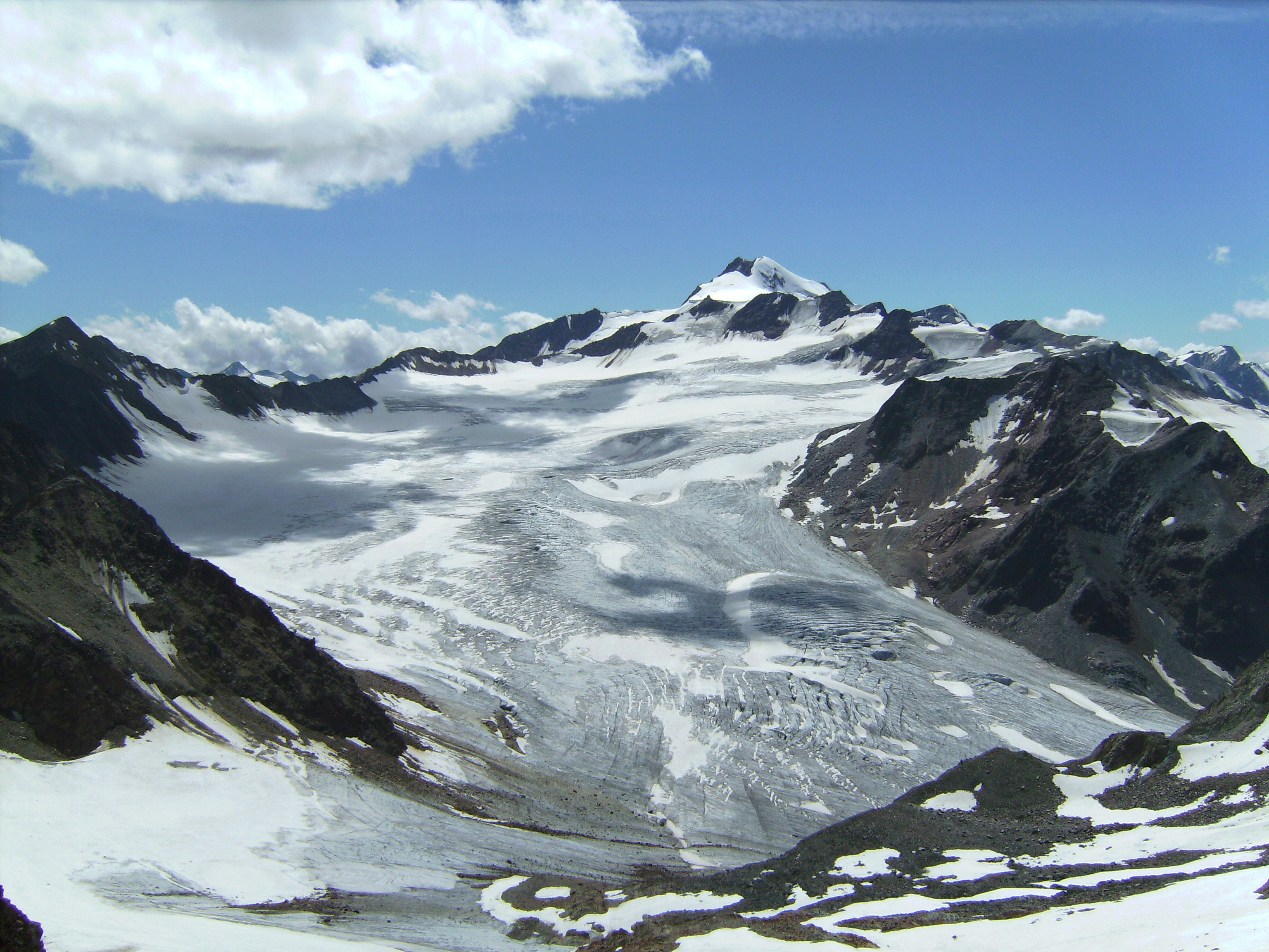 The Wildspitze with Mitterkarferner seen from the Tiefenbachkogel (summit station from the Tiefenbachbahn)